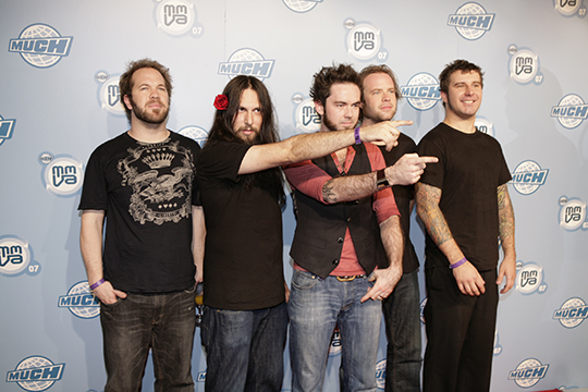 Finger Eleven were attendees at the 2007 MuchMusic Video Awards, held the night of Sunday, June 17, 2007 in Toronto, Ontario, Canada.